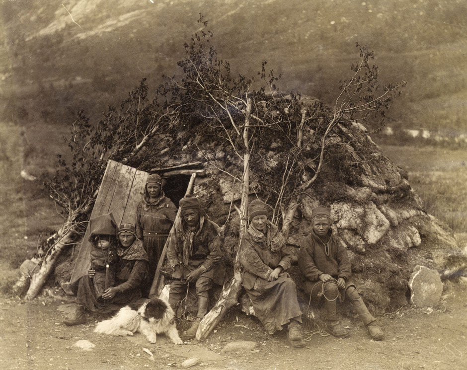 Sami family in front of their home, albumen print; 21,7 x 17 cm.